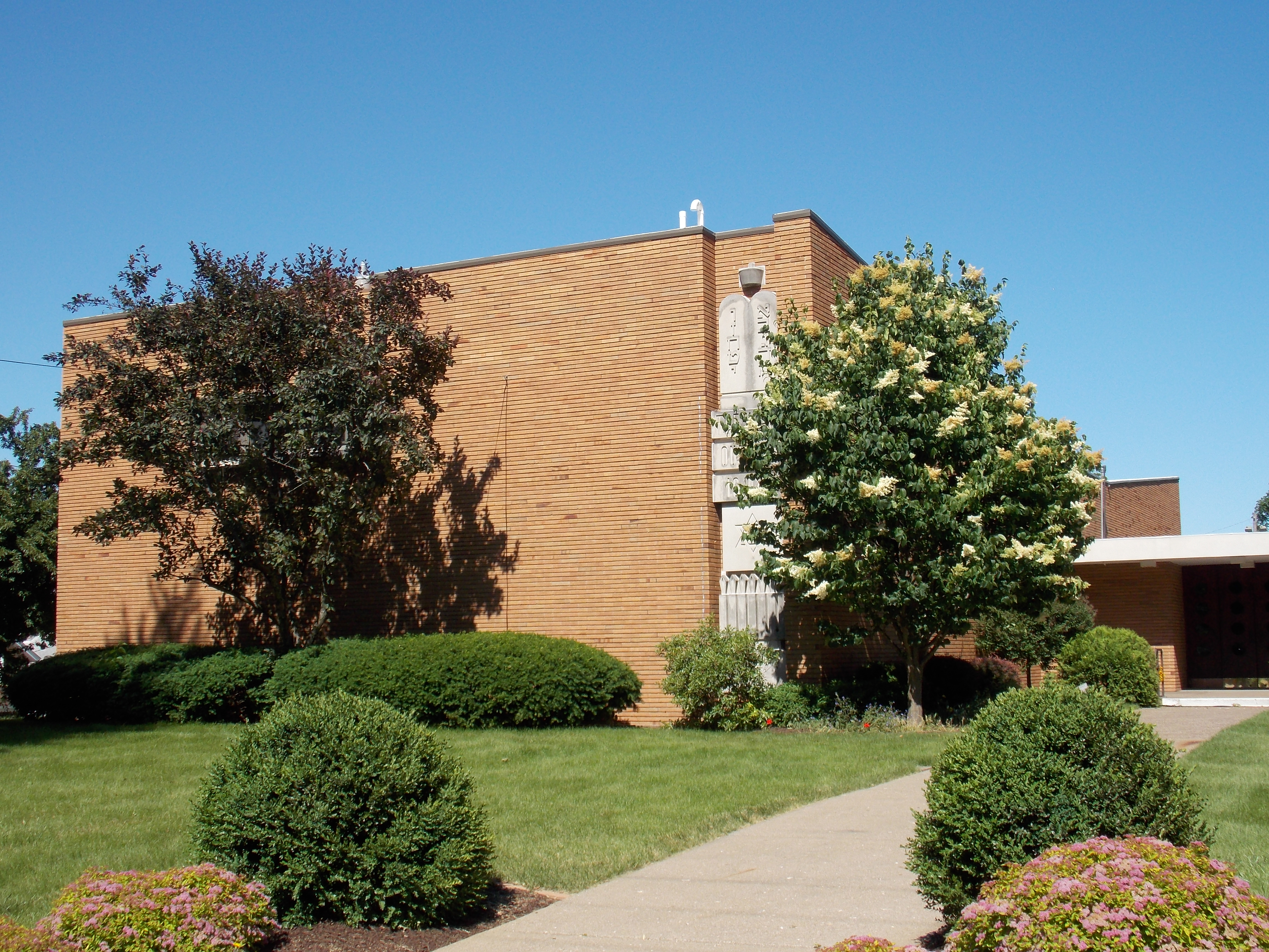 Temple Emanuel has hosed a Reformed Jewish congregation in Davenport, Iowa since 1953.